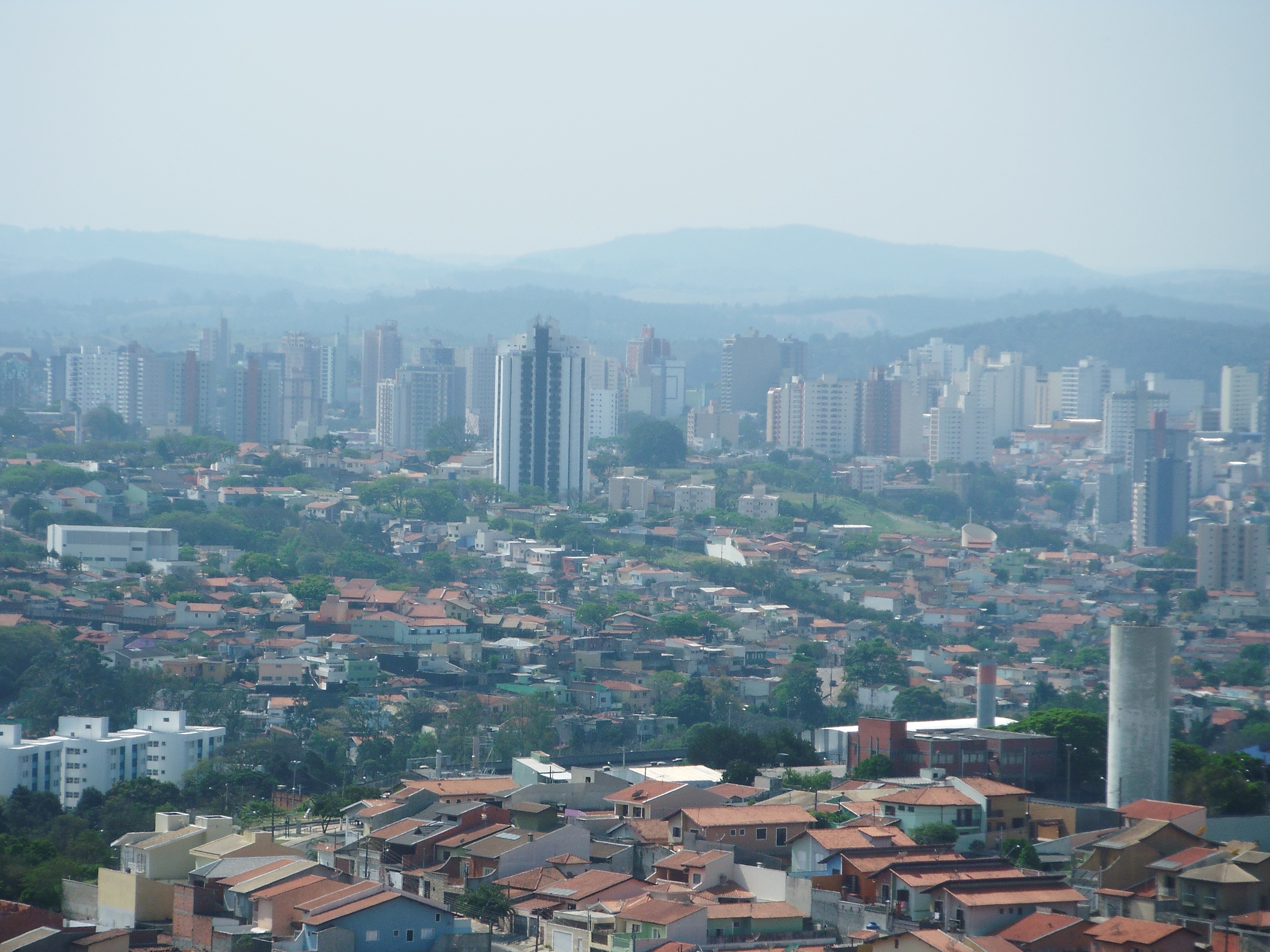 View of Jundiaí by Pedra da Baleia